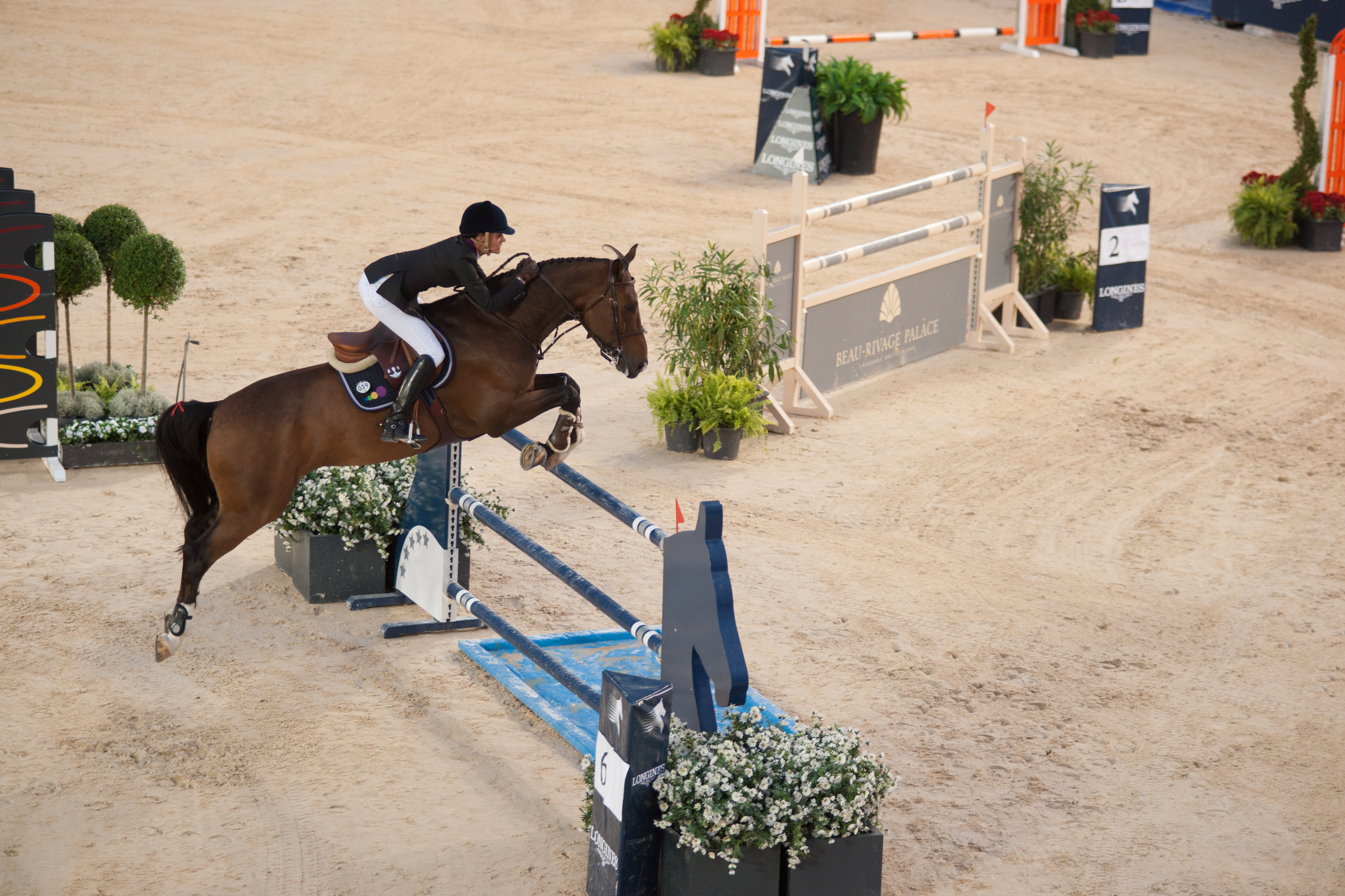 The making of this document was supported by Wikimedia CH. (Submit your project!) For all the files concerned, please see the category Supported by Wikimedia CH. 2013 Longines Global Champions Tour